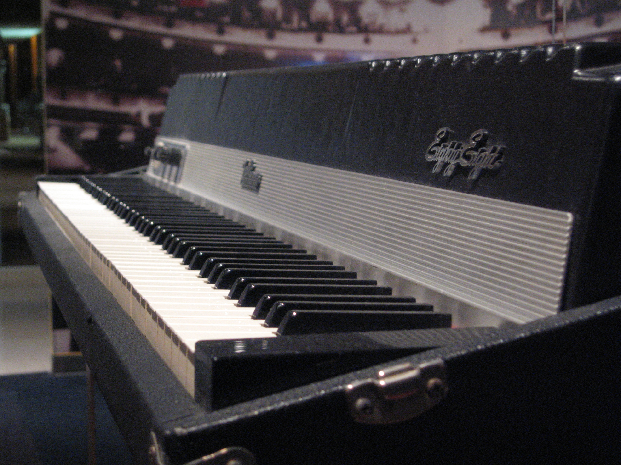 Fender Rhodes Suitcase 88 electric piano, angled view, CMHF